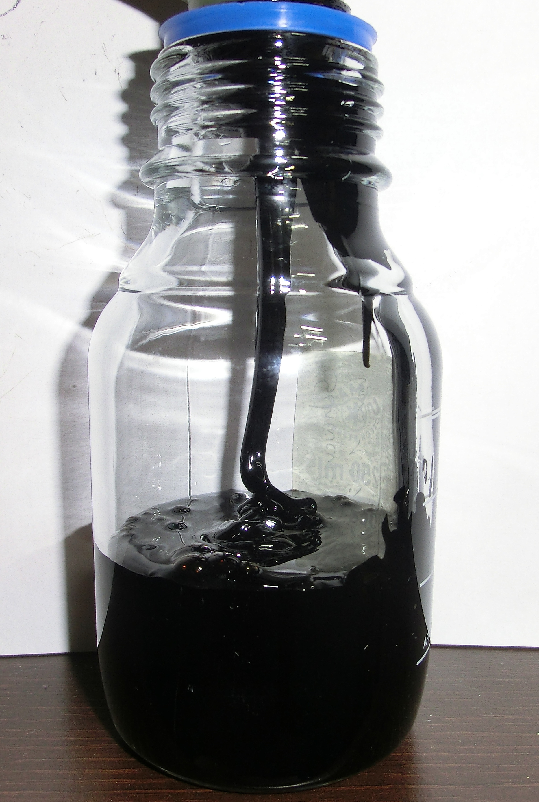 Residual fuel oil or Bunker C oil. This oil has to be heated to get it to flow. At room temperature it behaves more like a viscous grease.